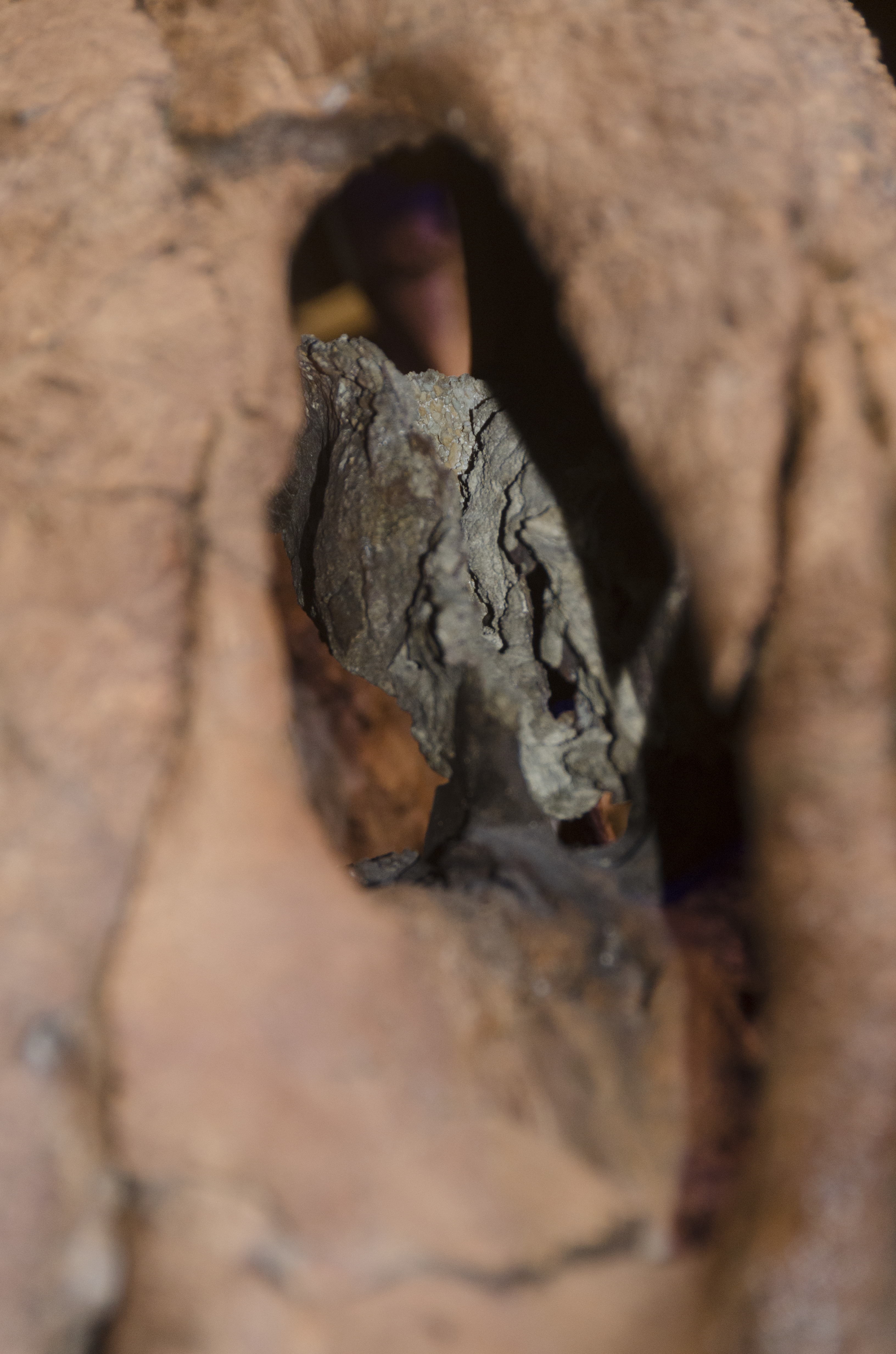 An ossified turbinal bone in the nasal cavity of the Tyrannosaurus specimen Trix.